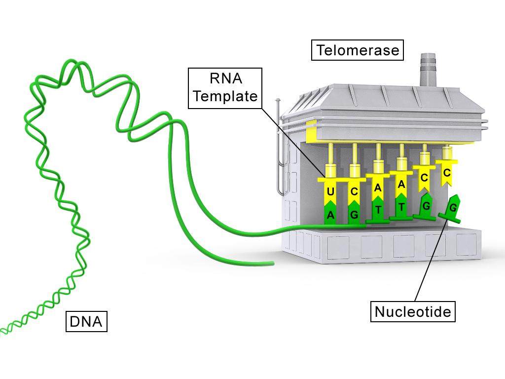 An illustration of a telomerase molecule